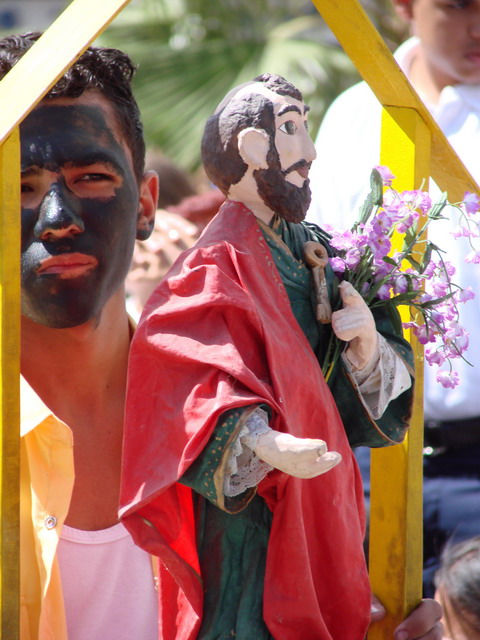 "Parranda de San Pedro", Guatire, Venezuela